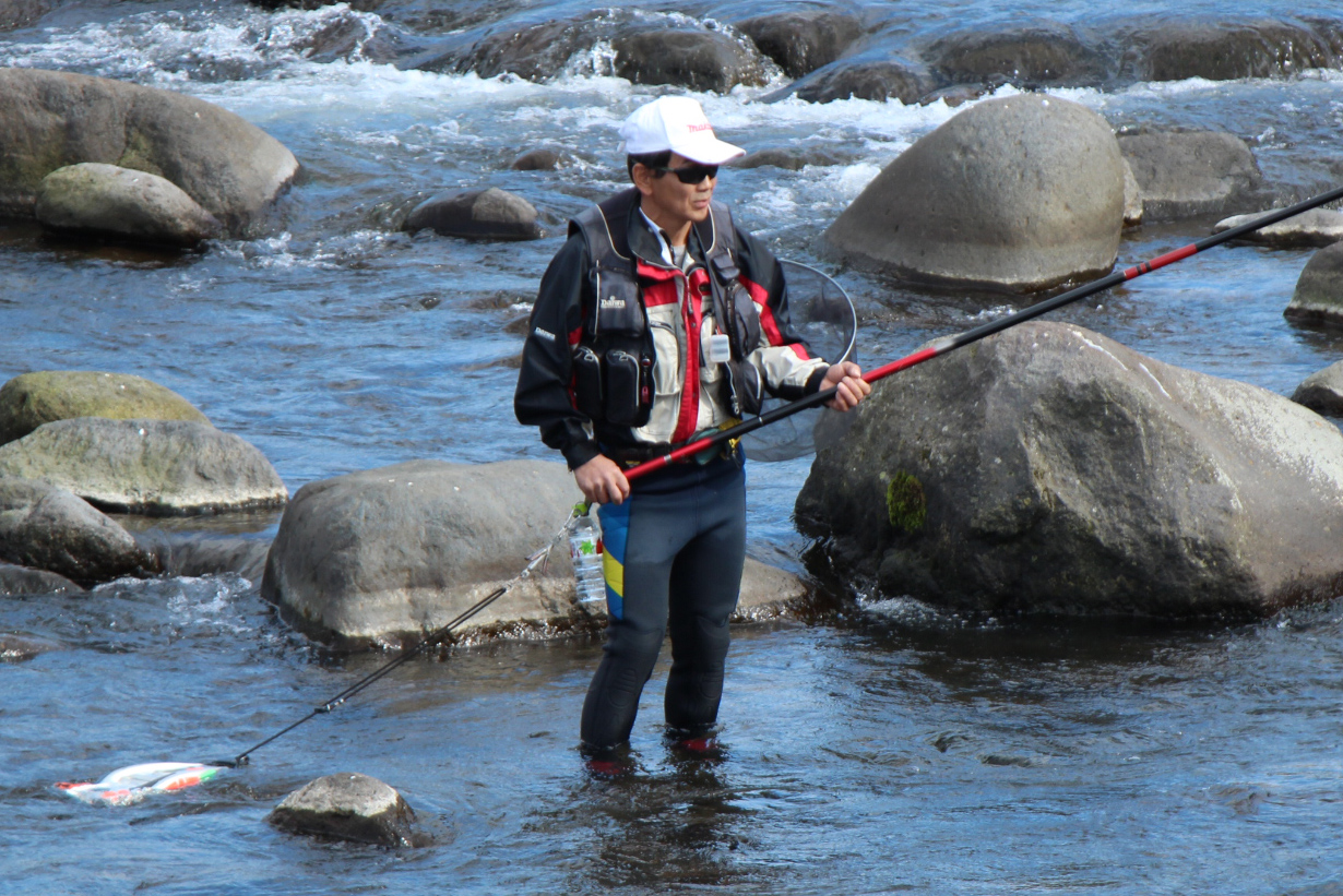 Ayu fishing in Japan. Taken in the tributary of Kano River, Izu Peninsula, Shizuoka Prefecture.